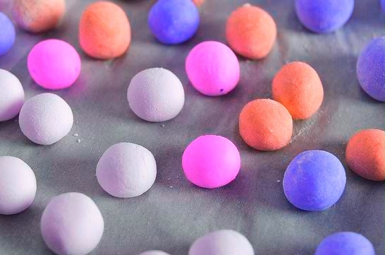 Tangyuan often come in many colors